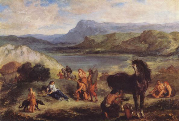 Illustrates a scene from Epistulae ex Ponto by Ovid